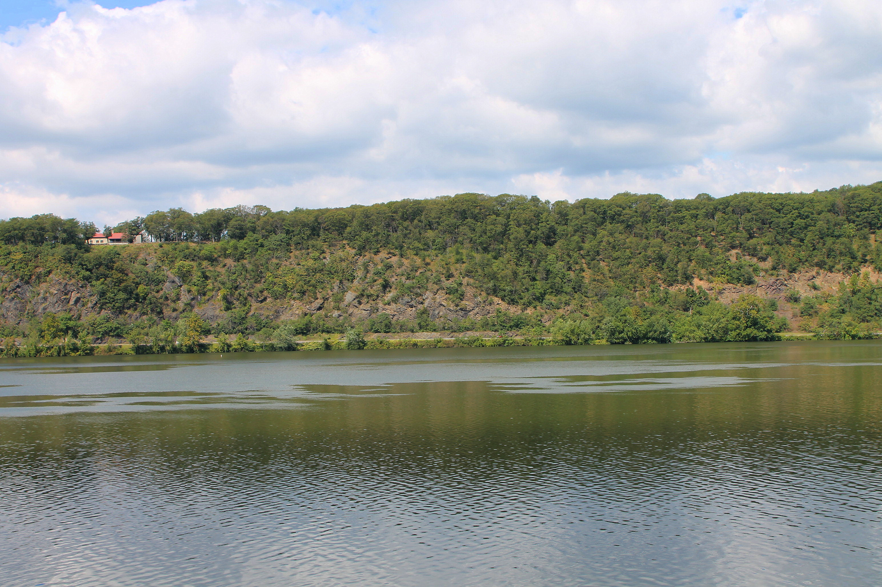 Cliffs in Monroe Township, Snyder County. US Route 11 is at their base and the Susquehanna River is in the foreground.